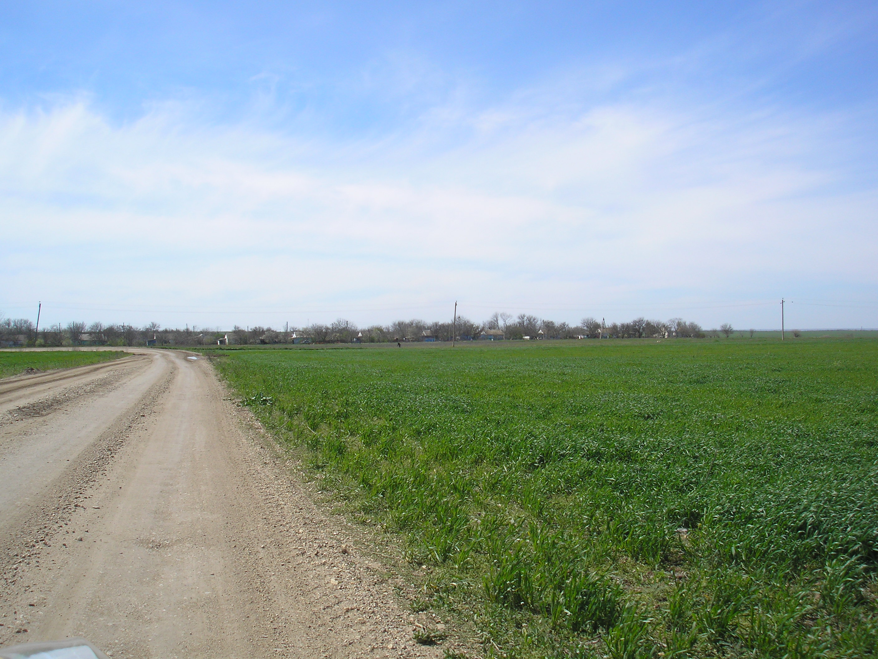 Village Grigoryevka, Krasnogvardeysky region, Crimea.